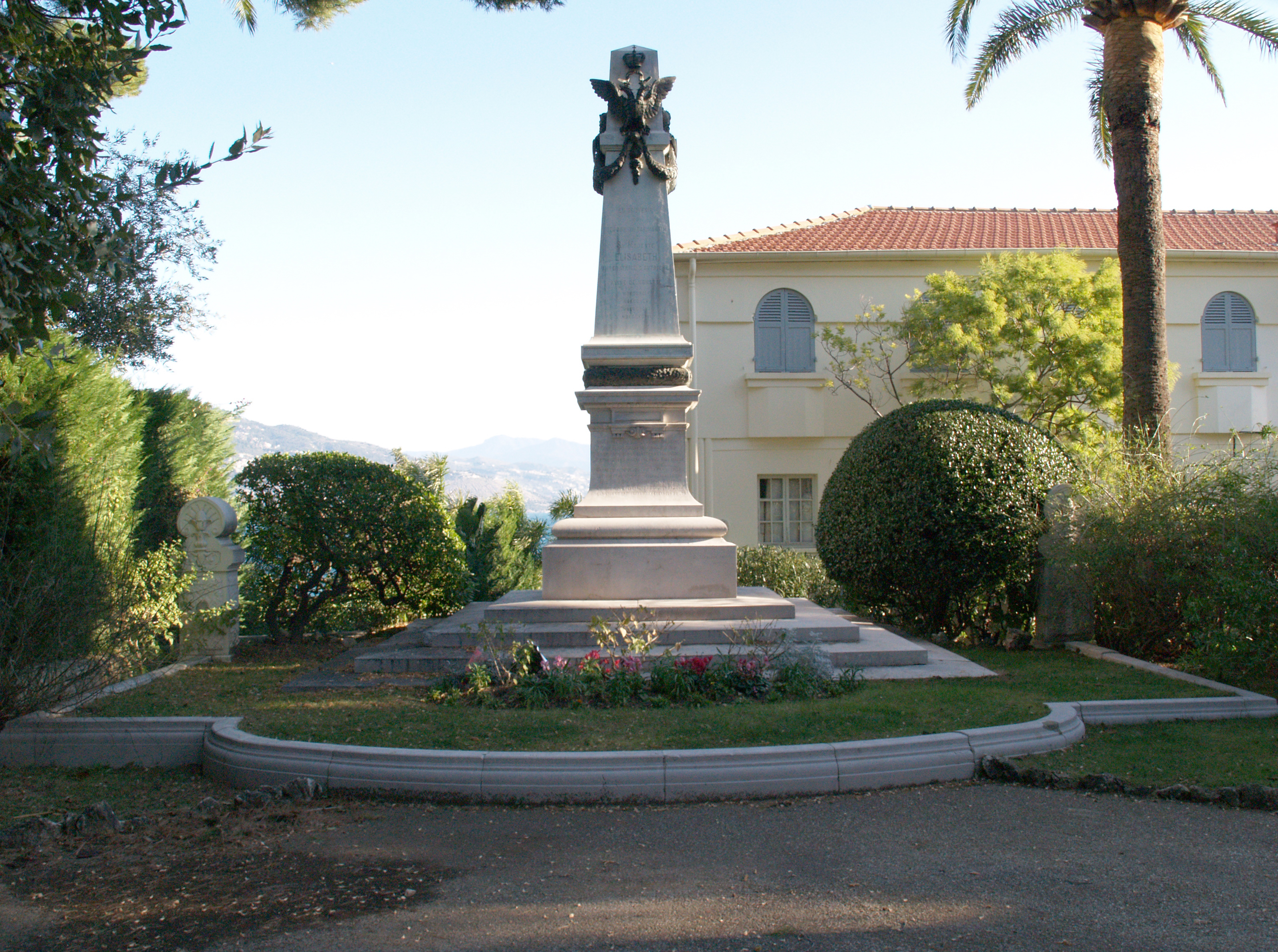 Monument à l'Impératrice Elisabeth (Sissi) D'Autriche